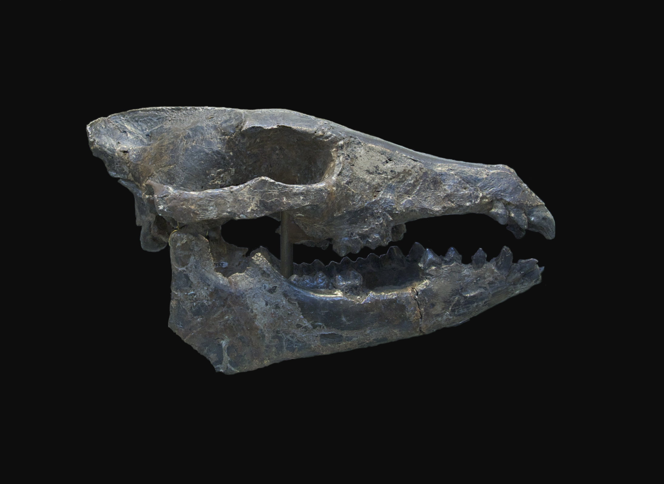 Hyotherium major, fossil skull, National Museum of Natural History, Paris